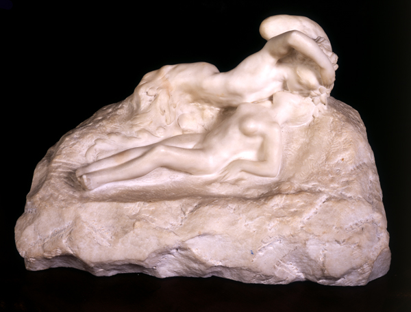 The Phantom Kissing the Maiden